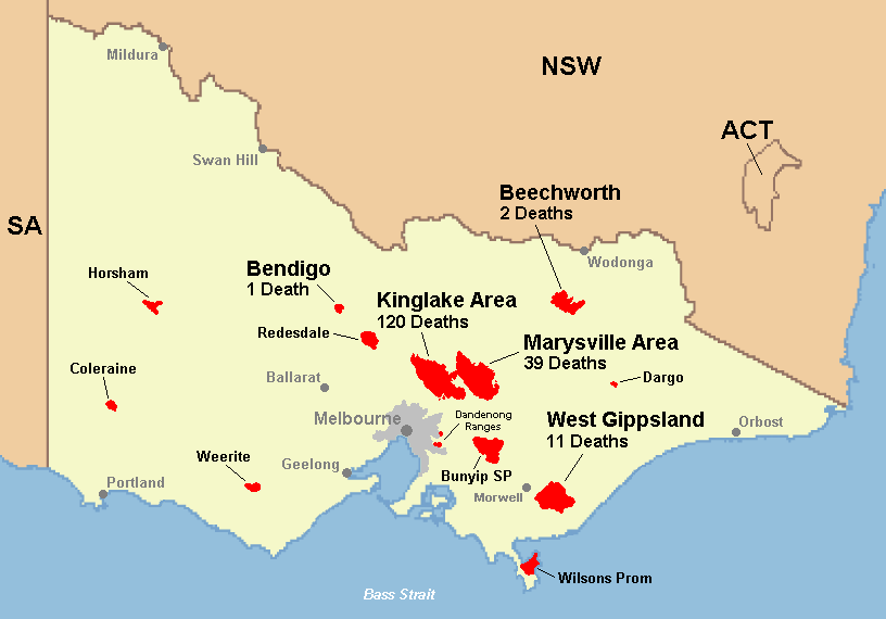 location-wise death toll in Victoria during Black Saturday bushfire 2009